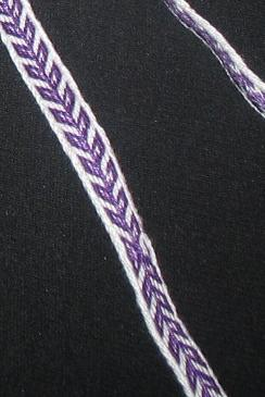 Lautanauha; detail photo of a pattern change point. Made with white, purple, and purple-to-white gradation mercerised cotton yarn. Used nine 6-point cards.